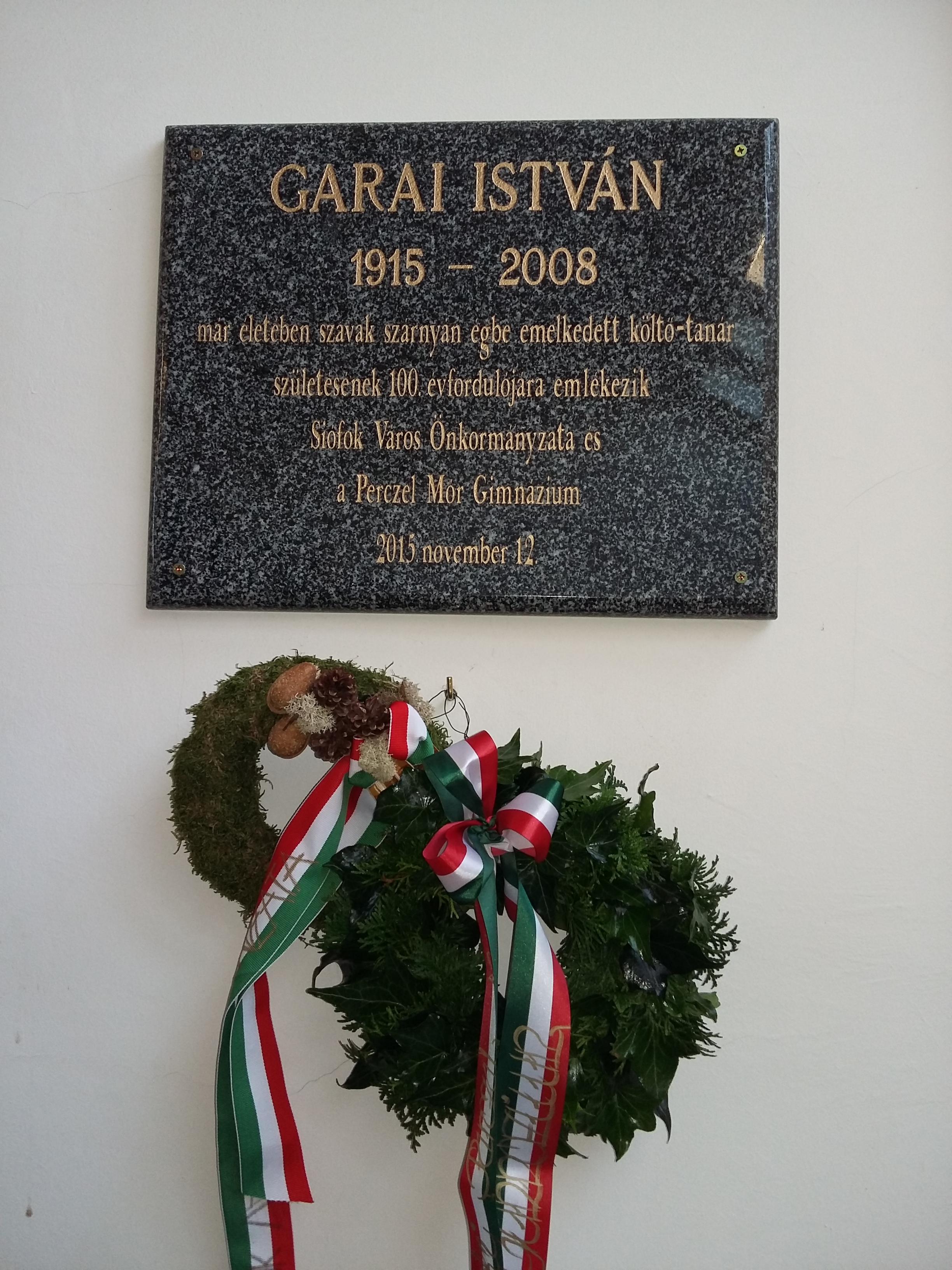 Memorial tablet of Istvan Garai in Perczel Mór Secondary School in Siófok